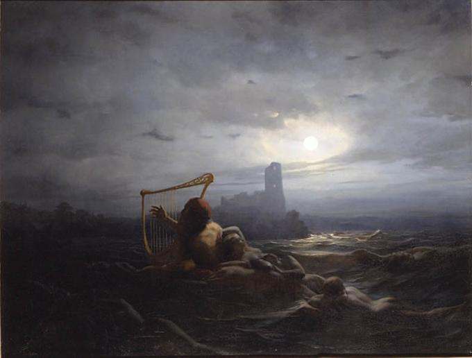 The Water-Sprite and Ägir's Daughters